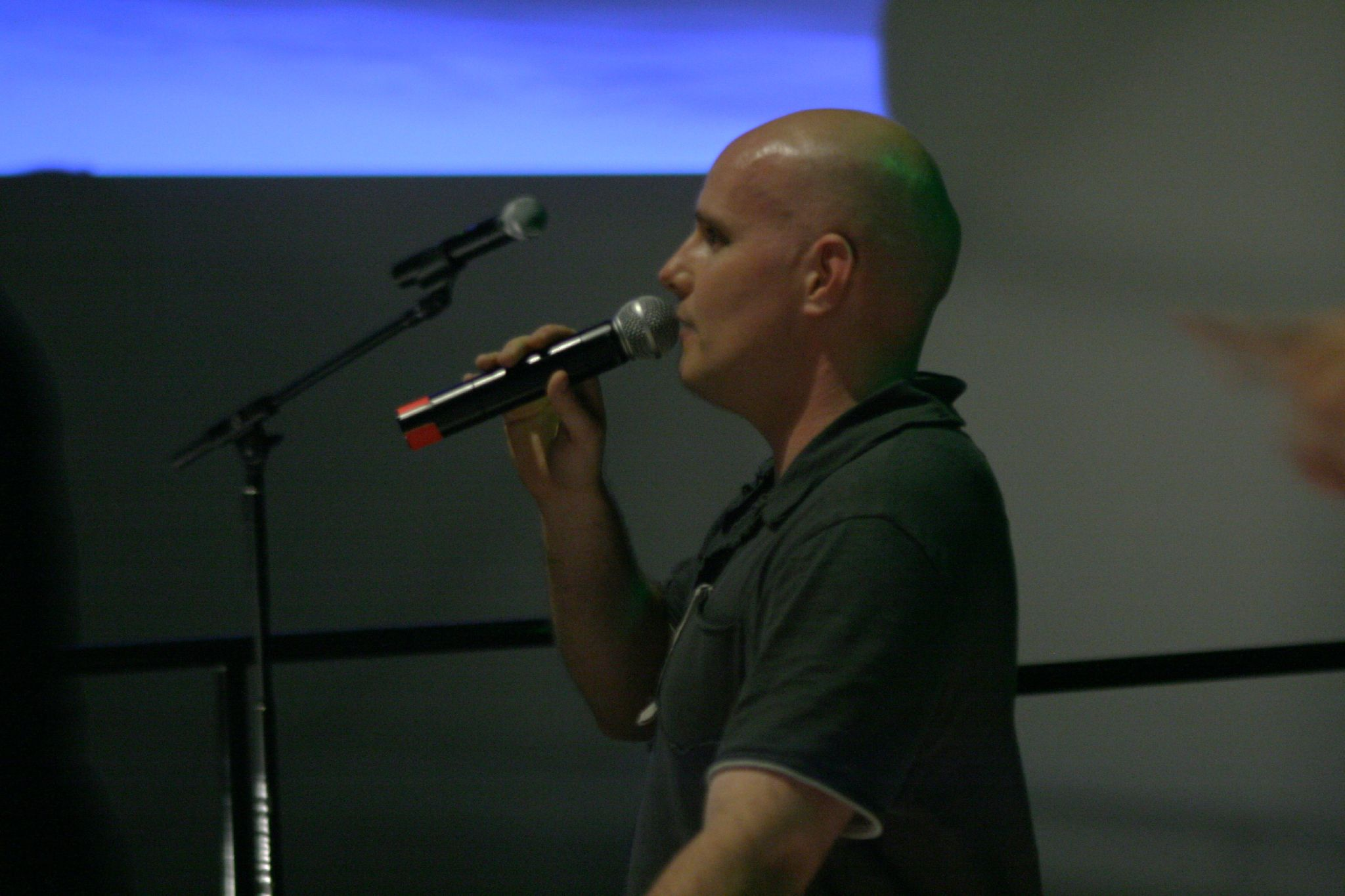 Frank O'Connor, former employee at Bungie video game studio and currently head of 343 Industries, discussing Halo 3 during an IMAX preview in 2007.